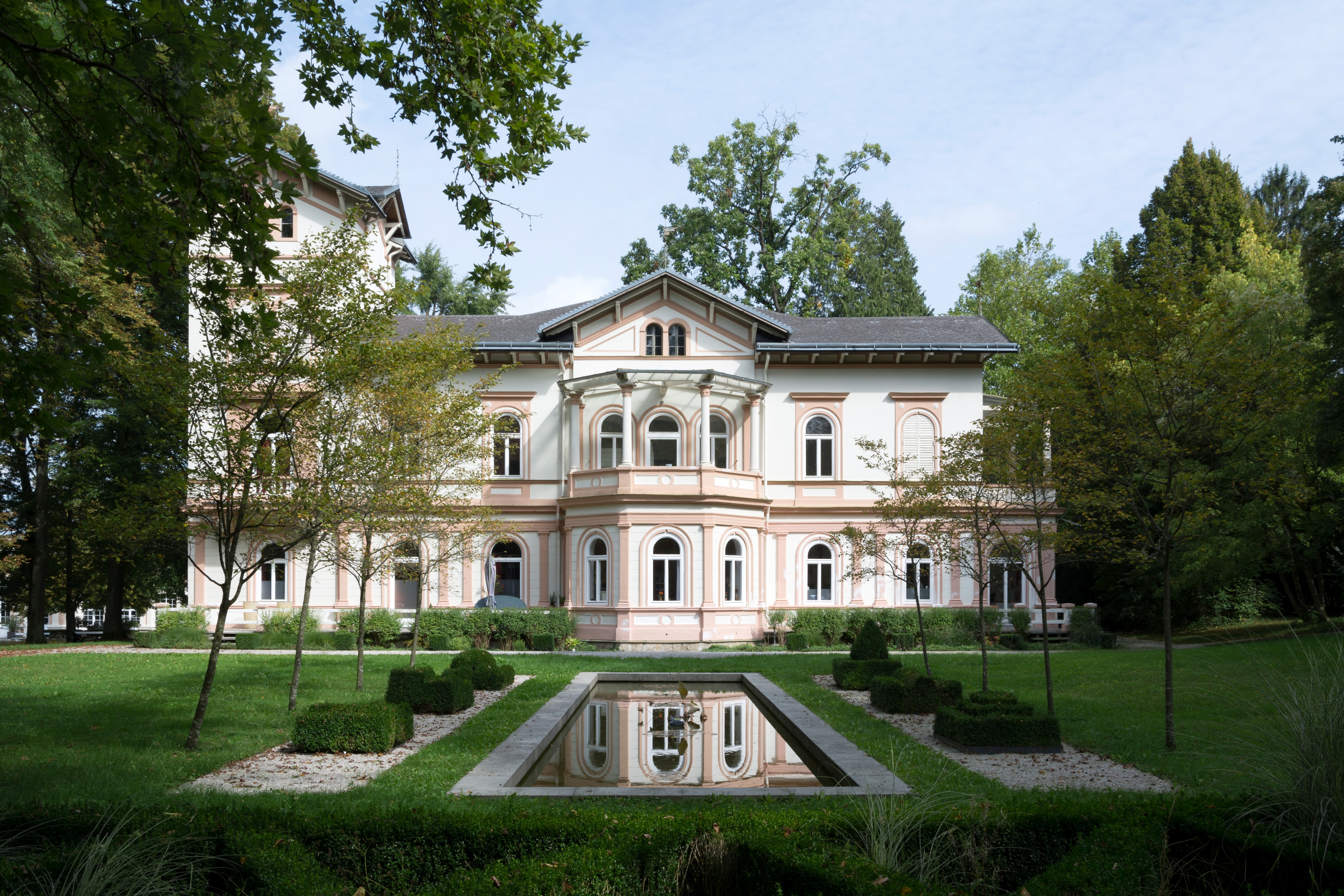 In 1866 the spa doctor Dr. Johann Rabl let erect this mansion according to the structural plans of Theophil Hansen in palladian style.